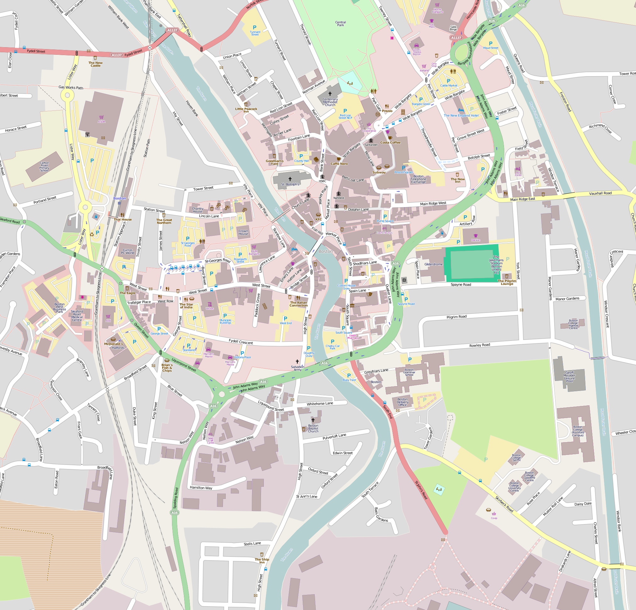 Map of Boston Central Geographic limits: N: 52.98237° S: 52.96945° W: -0.03545° E: -0.01305°